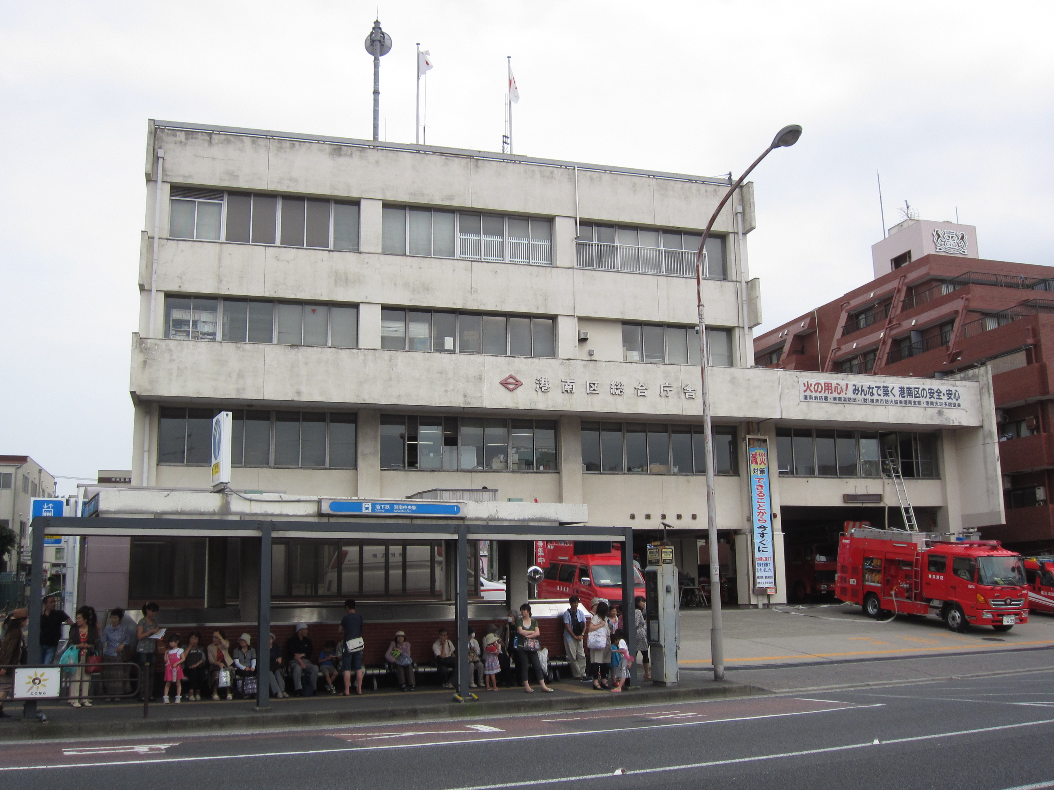 Yokohama City Konan Ward Office